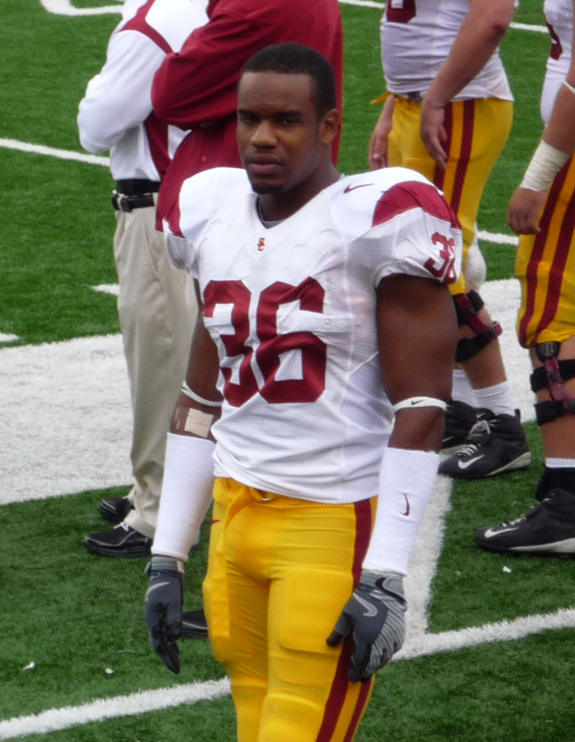 USC Trojans safety Josh Pinkard, on the sidelines during a game versus the Washington State Cougars in the 2008 season.